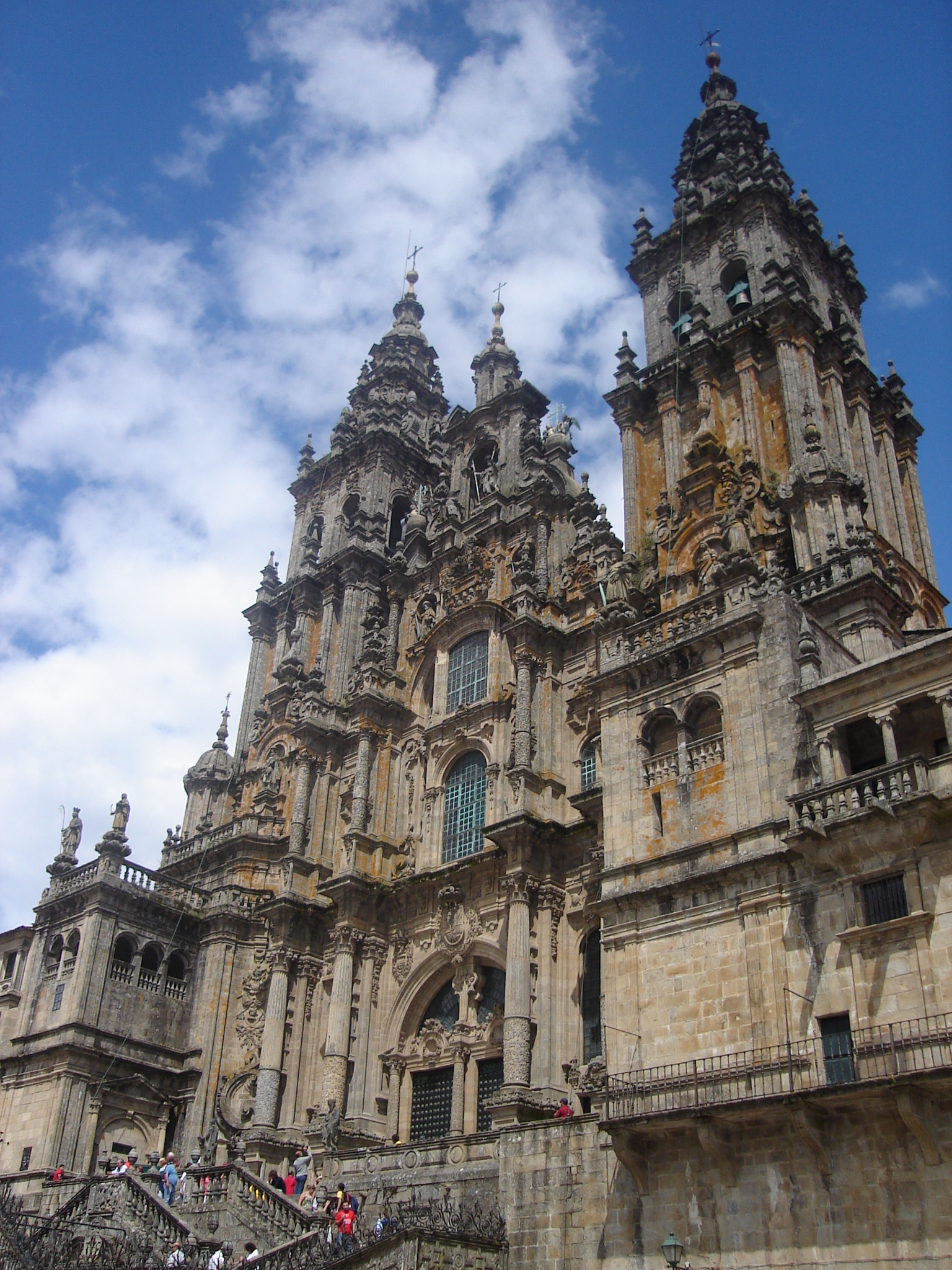 Description: The Cathedral in Santiago de Compostela, Galicia, Spain. Author: Neva Micheva Date: 29 July 2005.